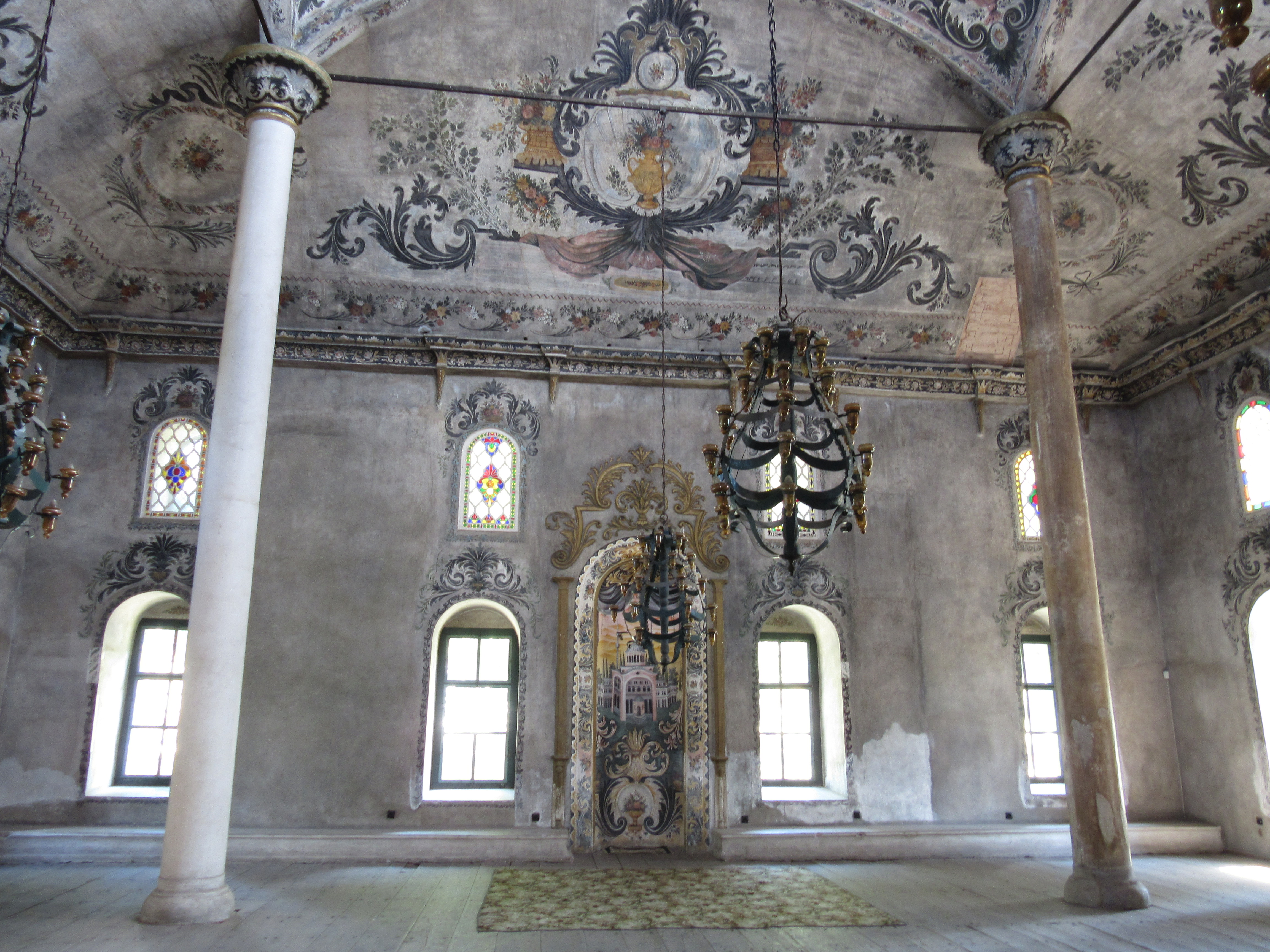 Interior of Bayrakli Mosque, Samokov, the prayer hall